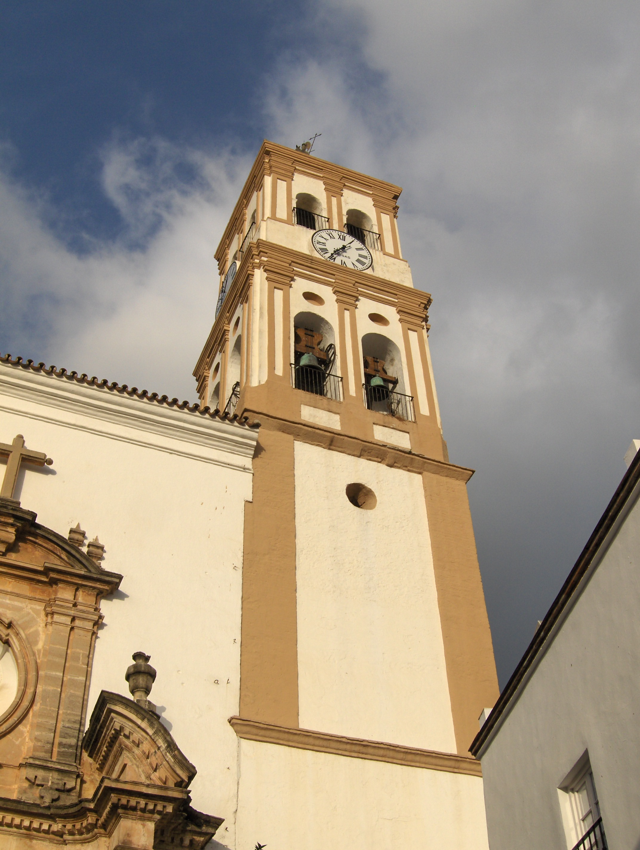 Iglesia de la Encarnación, Marbella, España